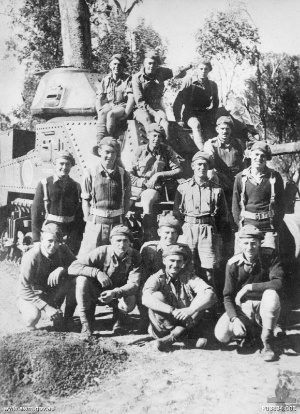 AWM Caption: Group portrait of members of the 2/7th Armoured Regiment, on and in front of a General Grant Tank. Identified second from left, front row is NX37487 Private William Josiah (Bill) Rowlinson who was born at Balgowlah, NSW, in 1919. After pre-war cadet service with the 17th Battalion, Citizens Military Forces, he enlisted on 27 June 1941, serving as NX37487 with the 2/7th Armoured Regiment. He later transferred to the 1st Australian Parachute Battalion. After a period with the 113rd Australian General Hospital as a volunteer in tropical disease research, he was awarded the Commander-in-Chief's Commendation Card, but took his discharge in 1946. In 1950 he re-enlisted for service in Korea, receiving service number 2/400239 with 3RAR (Royal Australian Regiment) . Twice wounded in Korea during 1951, he was awarded the Distinguished Conduct Medal (DCM) and Bar for his gallant conduct in the battles of Kapyong and Maryang-San. In early 1952 he was commissioned as a lieutenant in the regular army, but later in the year, while giving instruction in the use of explosives at Ingleburn, he was seriously injured in a gelignite explosion, his right hand and forearm being amputated as a result. He recovered from his injuries, remaining in the Army until 1957 and reaching the rank of Captain. Bill Rowlinson died in the late 1990s.